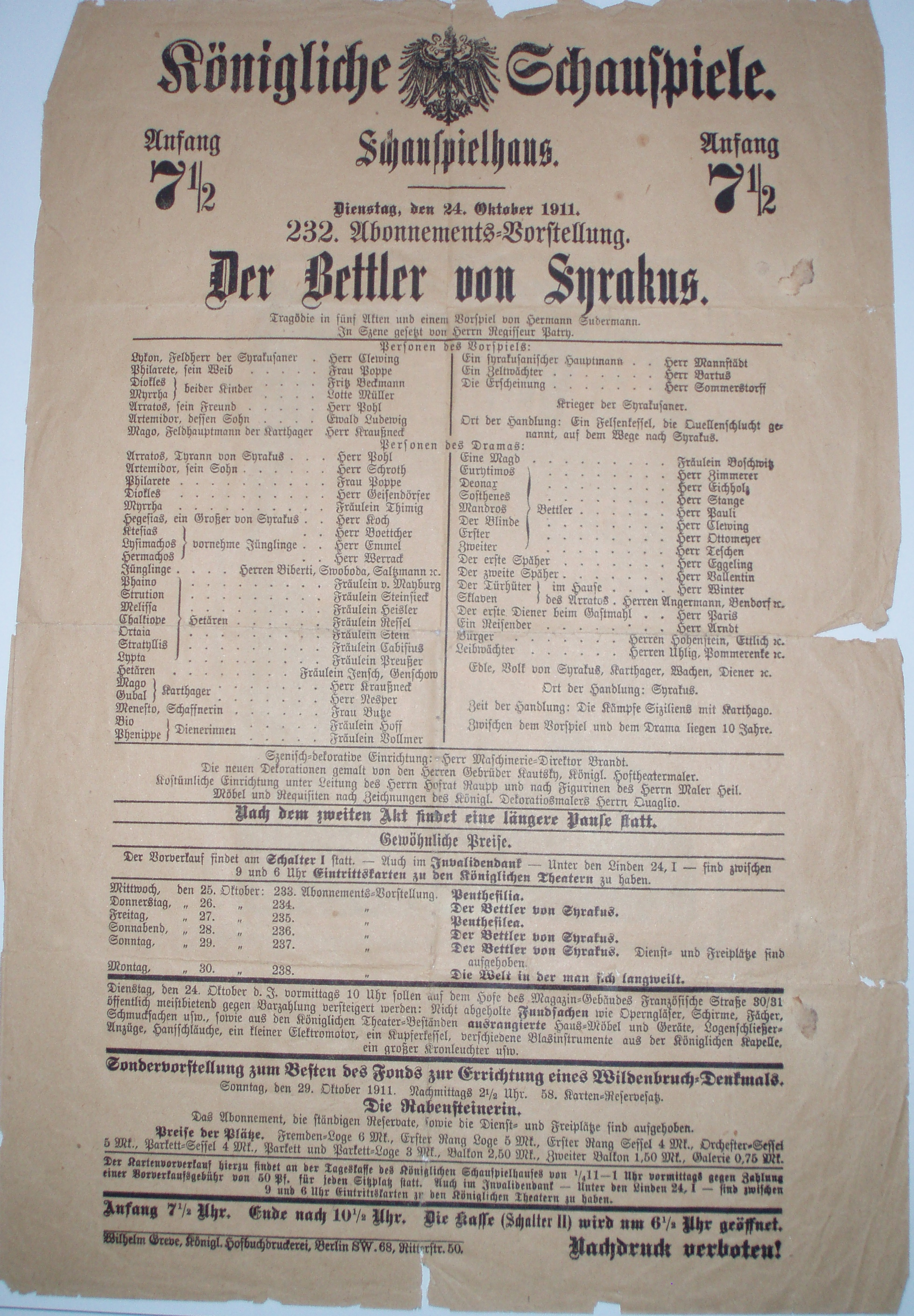 Program sheet for Oct. 24, 1911: Hermann Sudermann's Der Bettler von Syrakus. Reviewed by Siegfried Jacobsohn, in: Das Jahr der Bühne (1912), p. 58